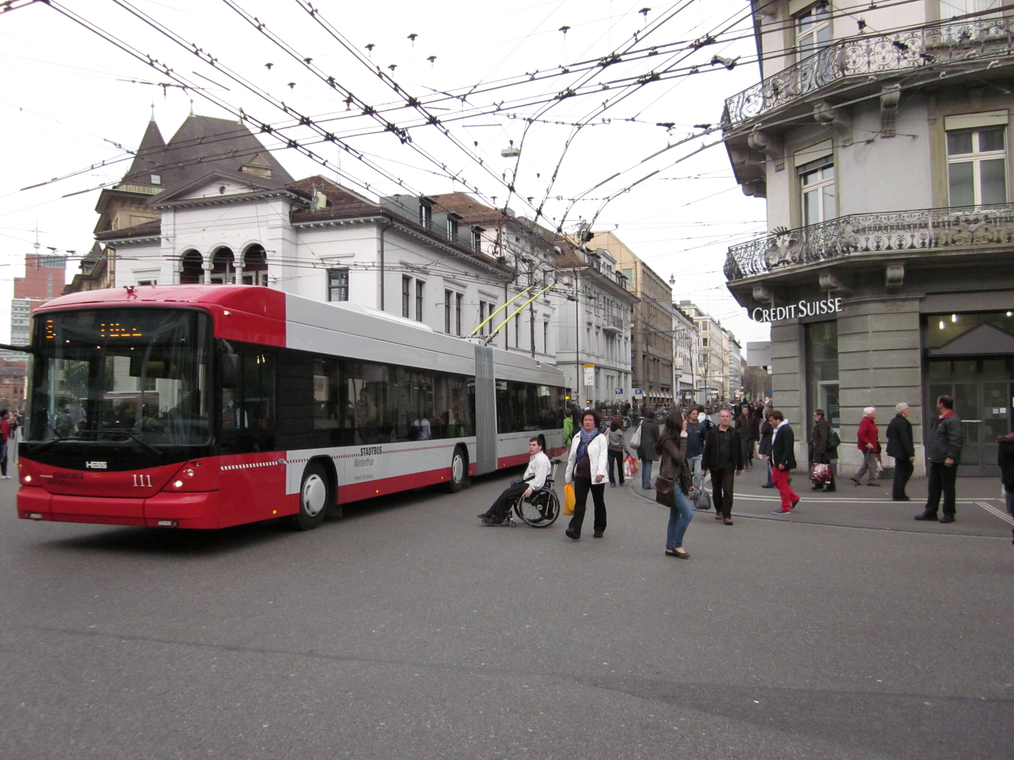 Trolleybus in Winterthur, Switzerland.